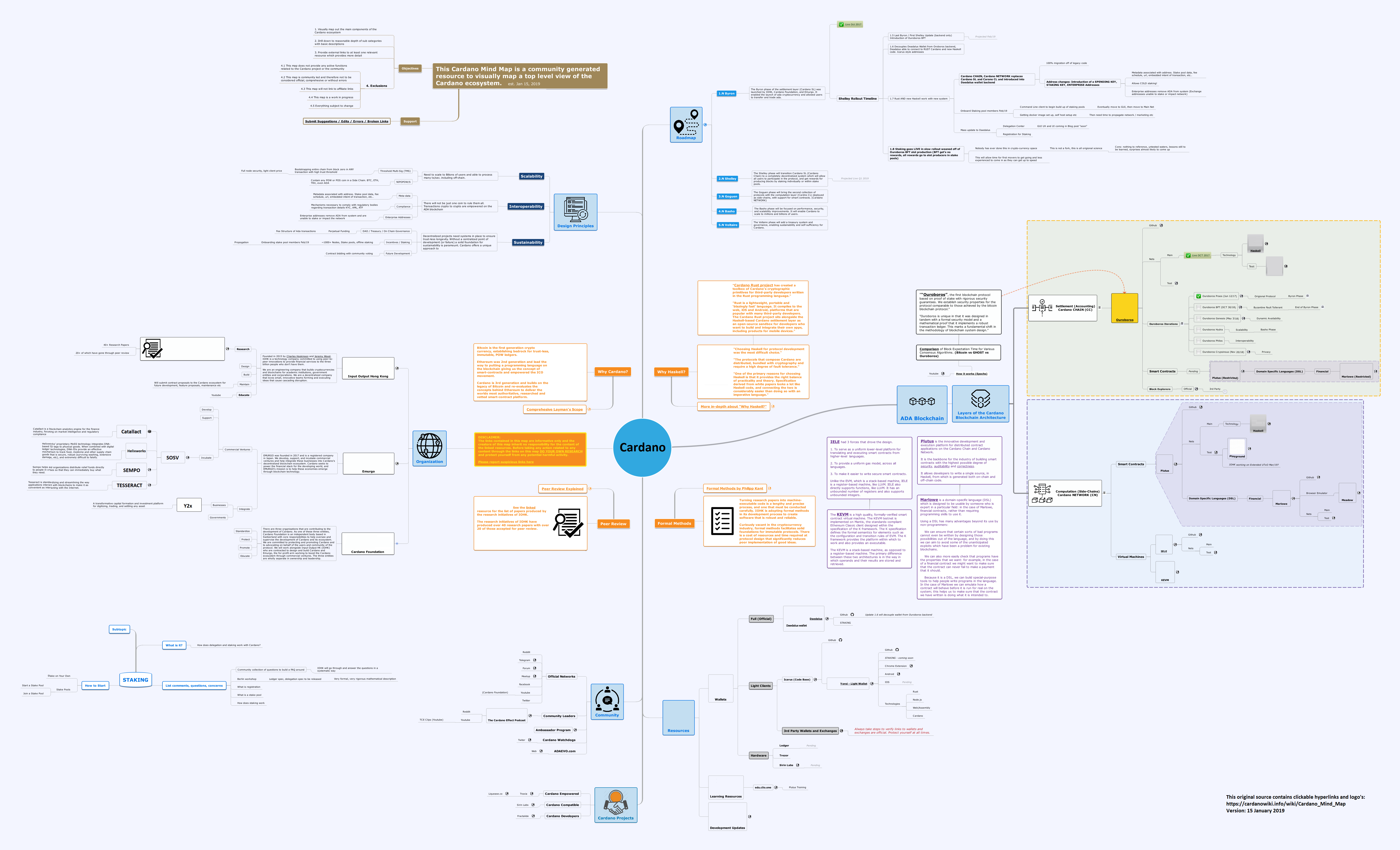 A mind map of the Cardano platform. In this edited mind map the logo's are removed, because of potential copyright issues. Latest version with logo's and clickable hyperlinks: Official website